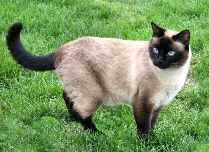 Colorpoint cat. Possibly Siamese